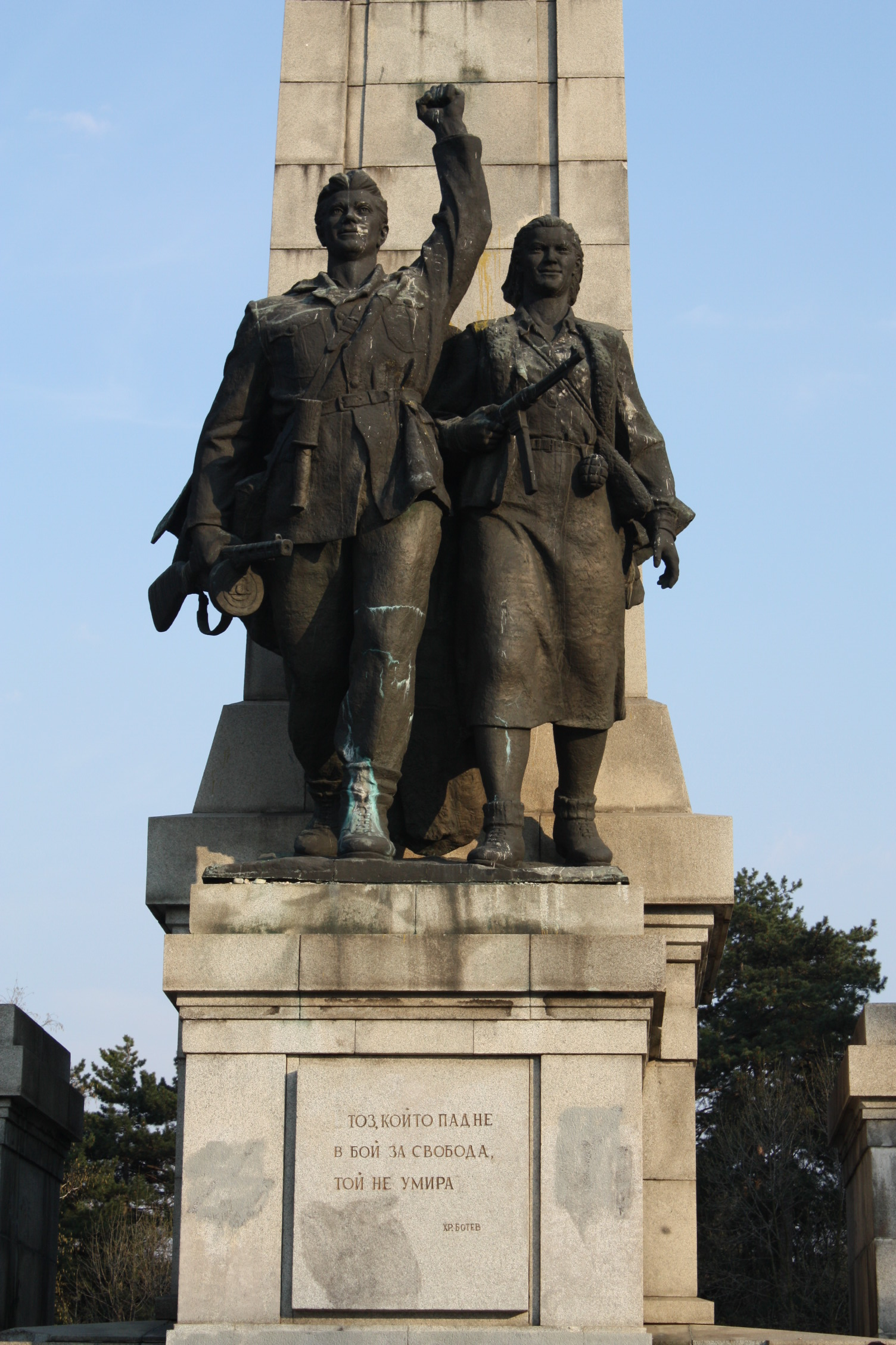 Statues and monuments in Sofia, Bulgaria